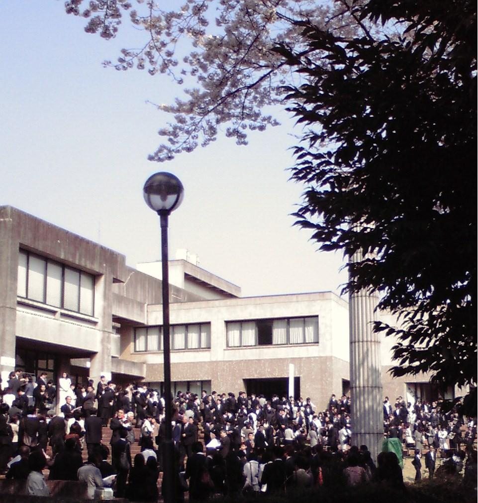 This is the entrance ceremony of University of Tsukuba at 2009.